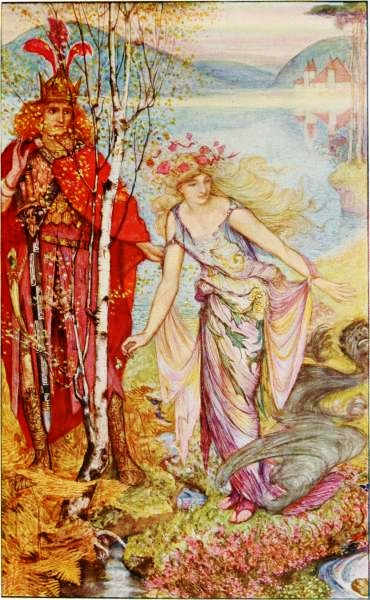 "When she stood upright her ugliness had all gone." From "The Lilac Fairy Book" by Andrew Lang and Illustrated by H. J. Ford